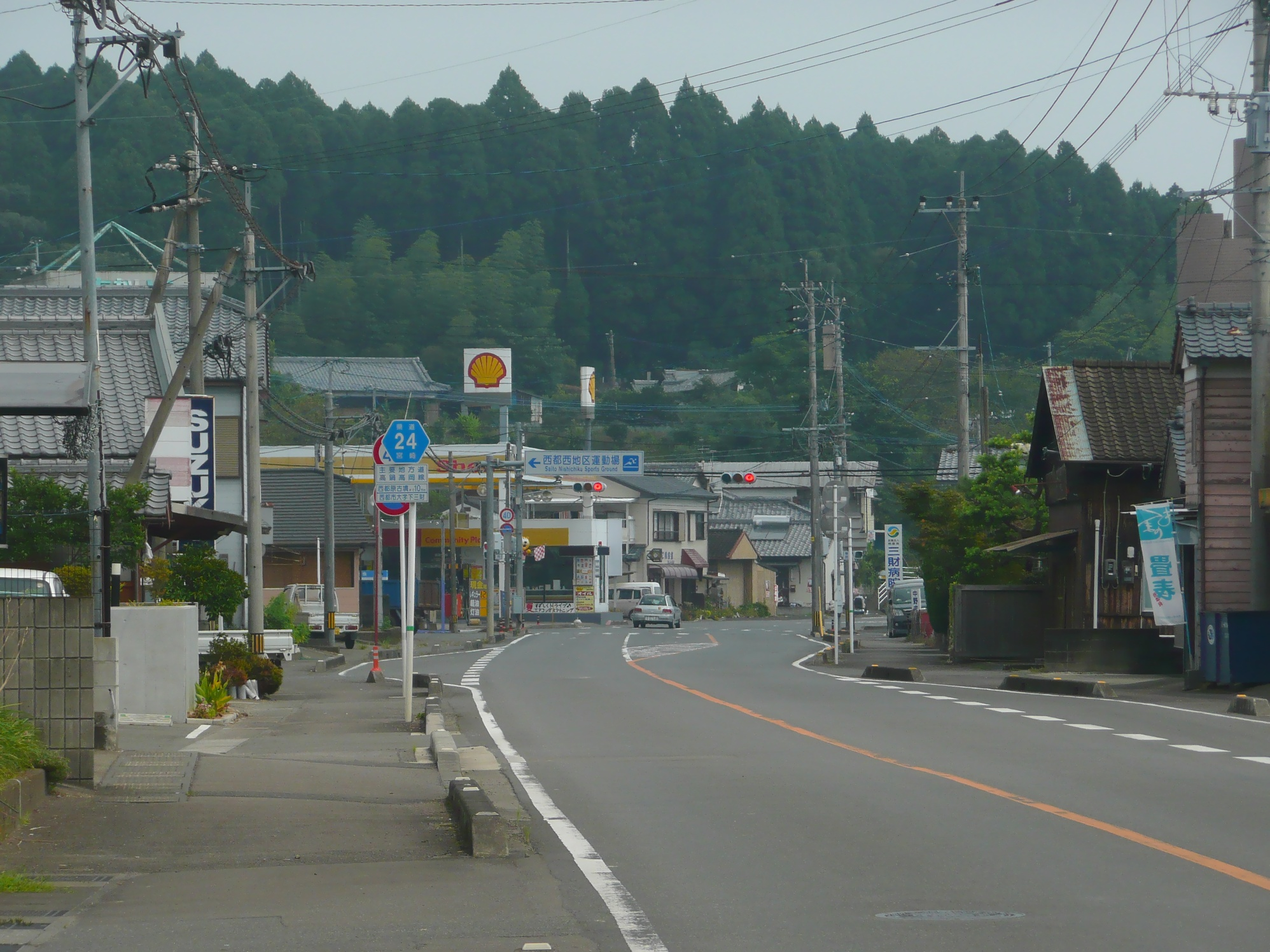 Miyazaki Prefectural Road No.24 Takanabe-Takaoka Line (Shimo-Sanzai, Saito City, Miyazaki Prefecuture, Japan)